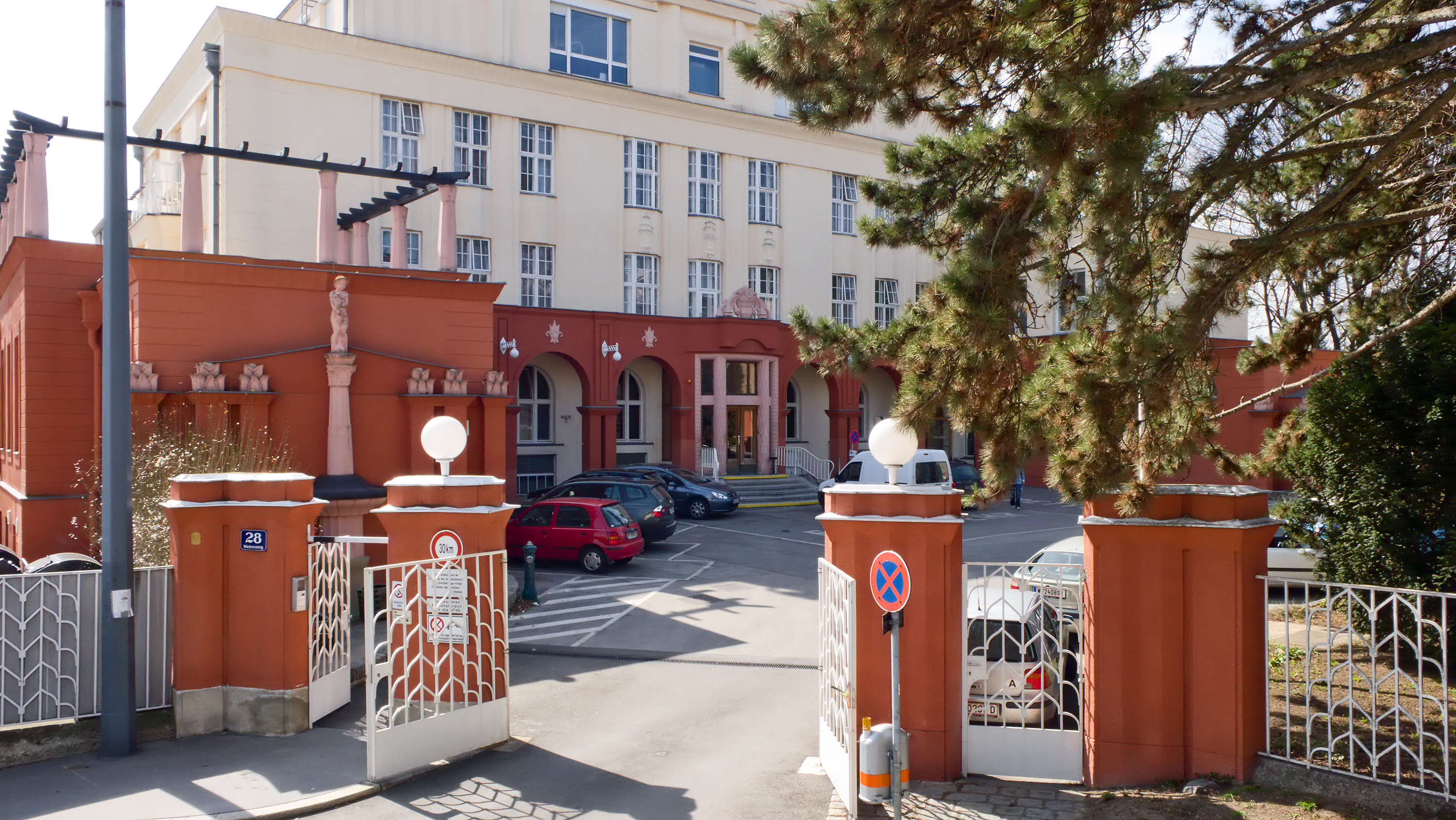 Hospital Orthopädisches Krankenhaus Gersthof in Vienna Währing